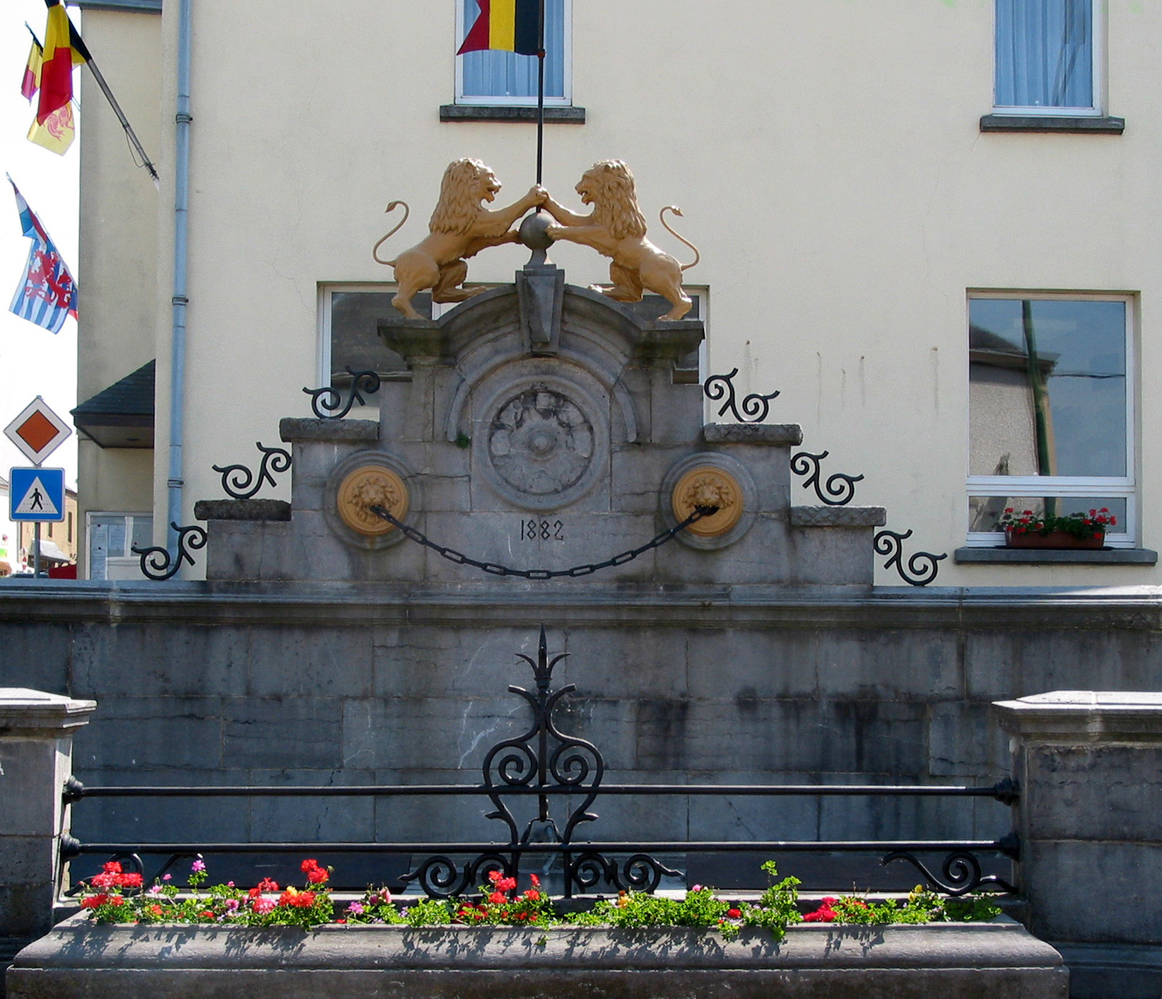 Tintigny (Belgium), the "Lion’s Fountain" (1882).